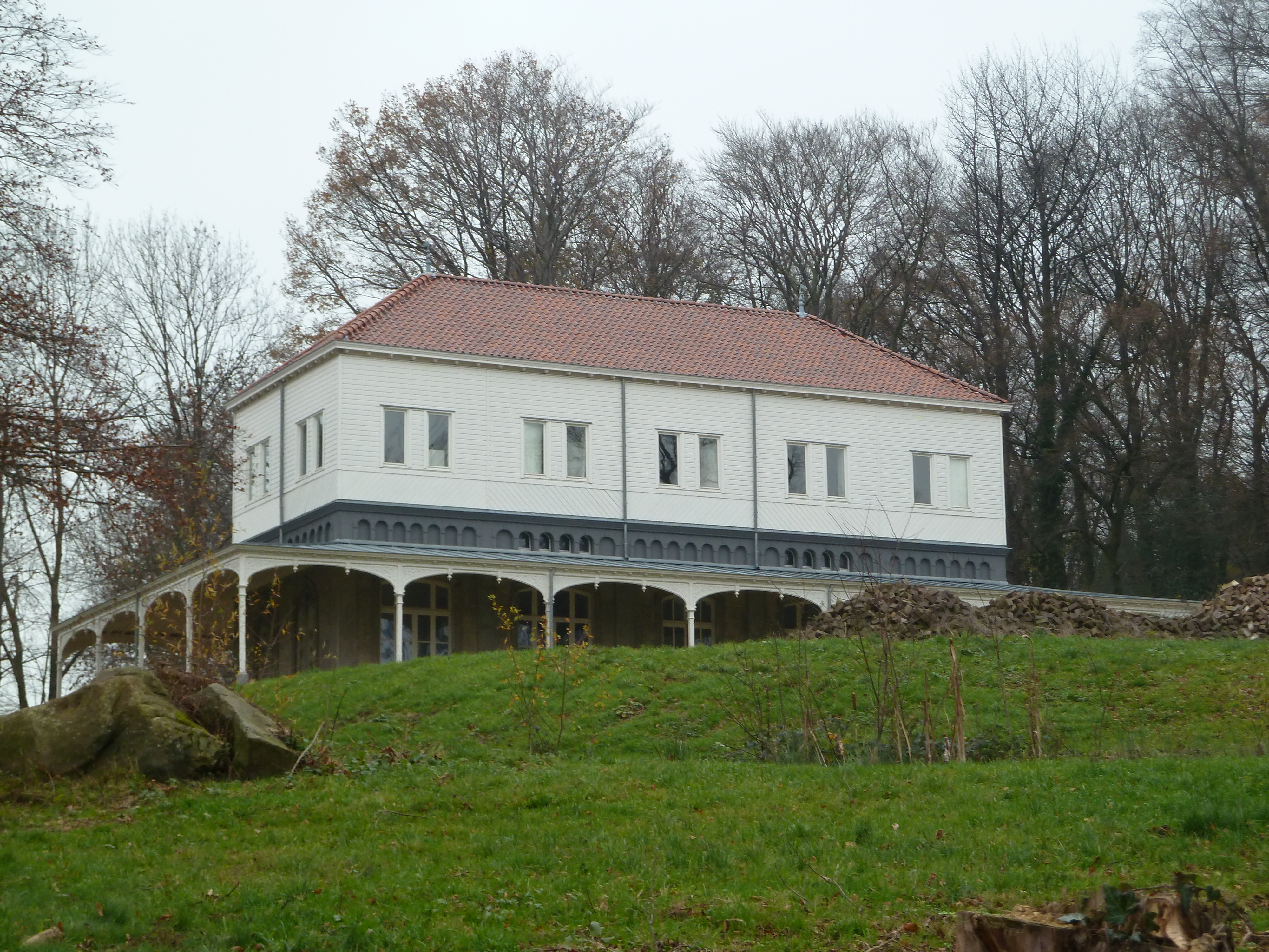 Bommerigerweg 23, Mechelen, Limburg, the Netherlands